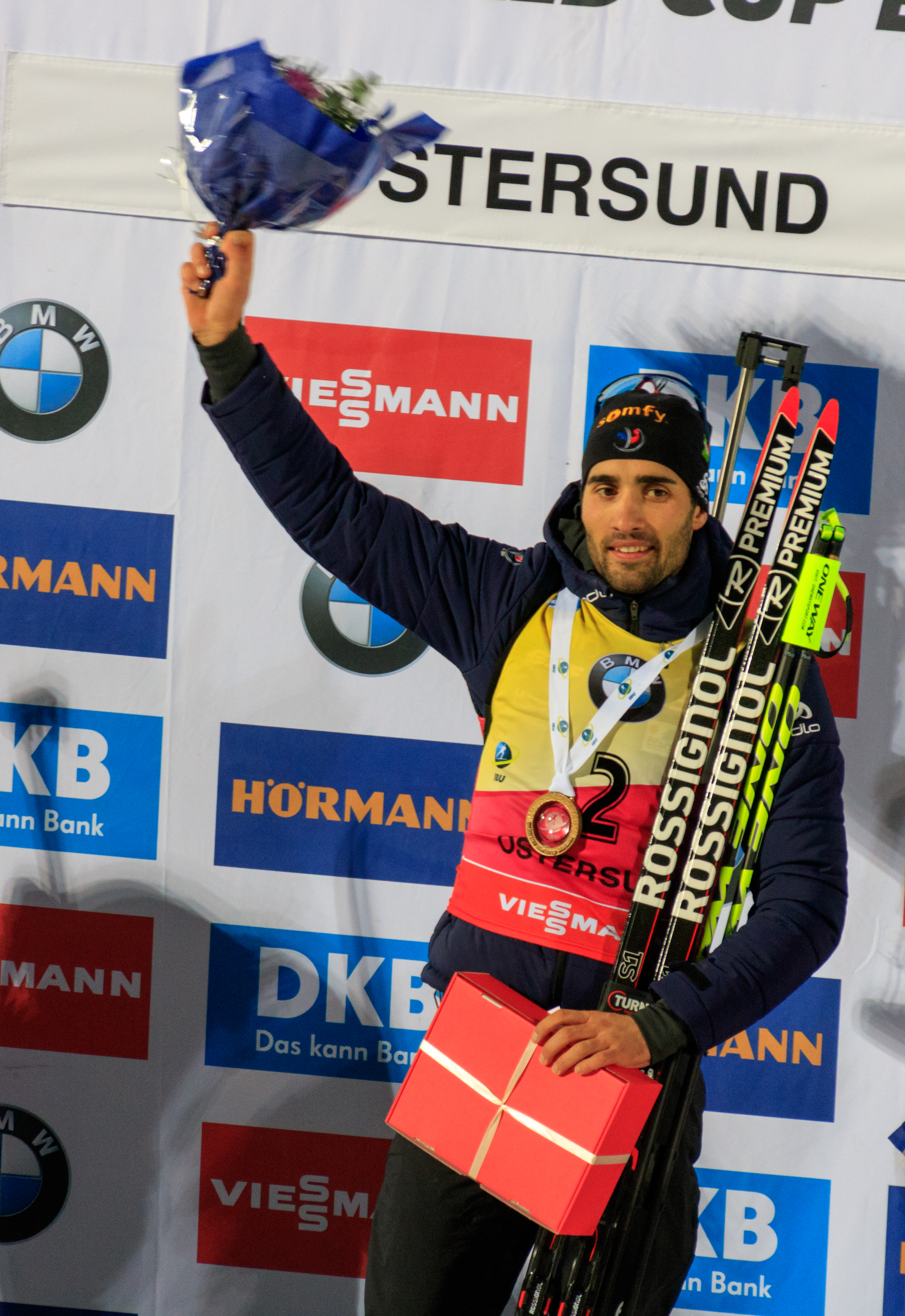 Martin Fourcade in Östersund 2017